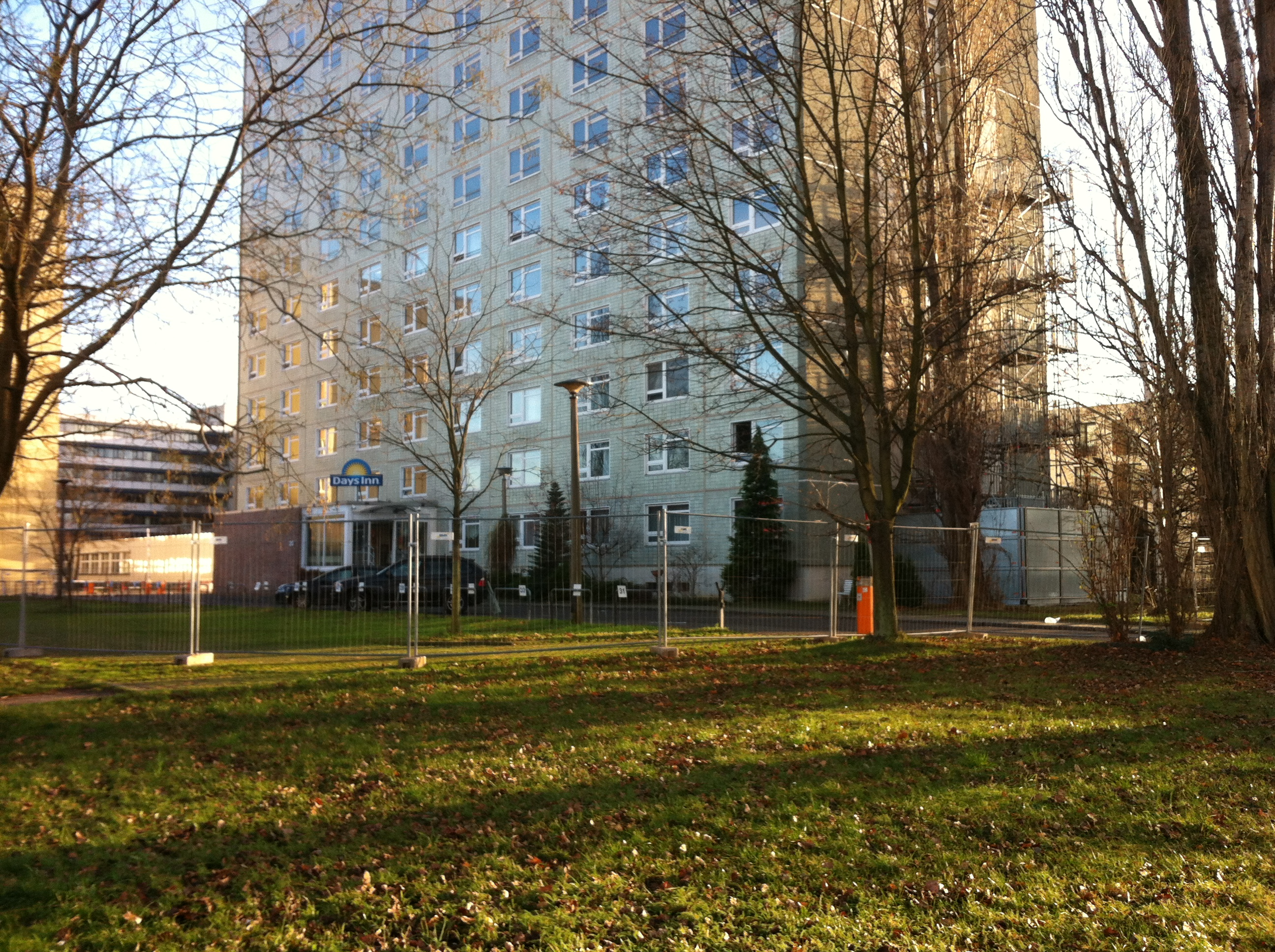 occupied Hotel for refugees